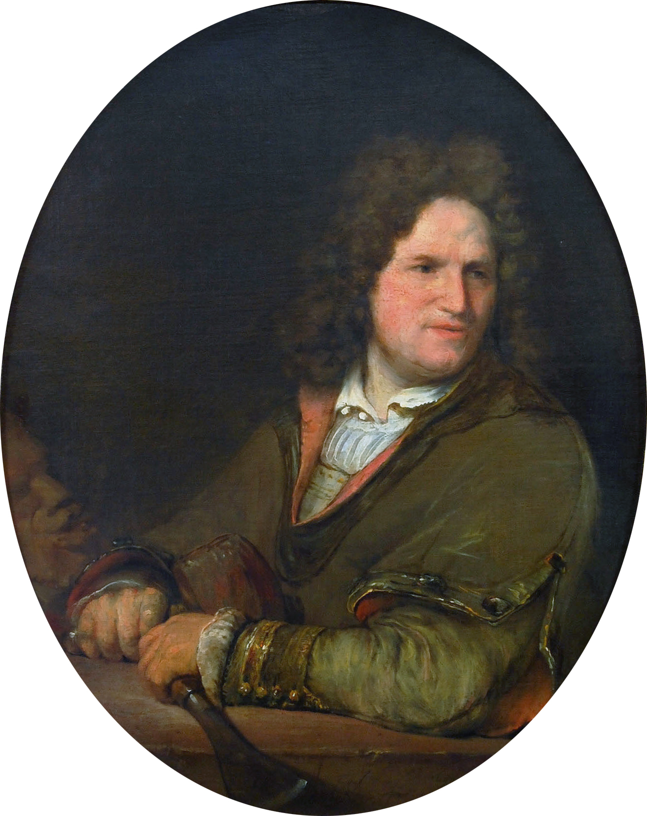 signed b.c.: A De Gelder f. / 1698